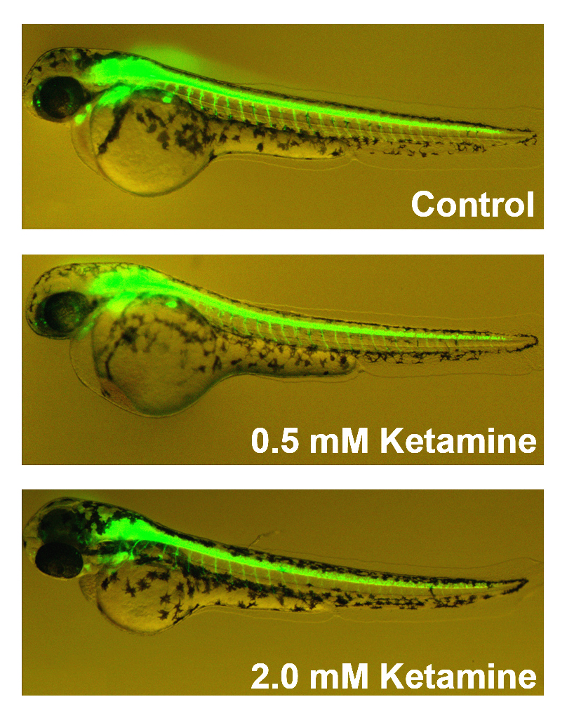 Zebrafish, like humans, have a backbone and many genes in common with humans. In one laboratory test, the addition of the chemical ketamine—a pediatric anesthetic—lowers the fish’s heart rate and reduces the number of neurons (nerve cells), shown in the slide as short, vertical lines coming down from the horizontal spinal cord. Read this Consumer Update to find out how these tiny, transparent fish may make a difference to your health someday: Zebrafish Make a Splash in FDA Research.